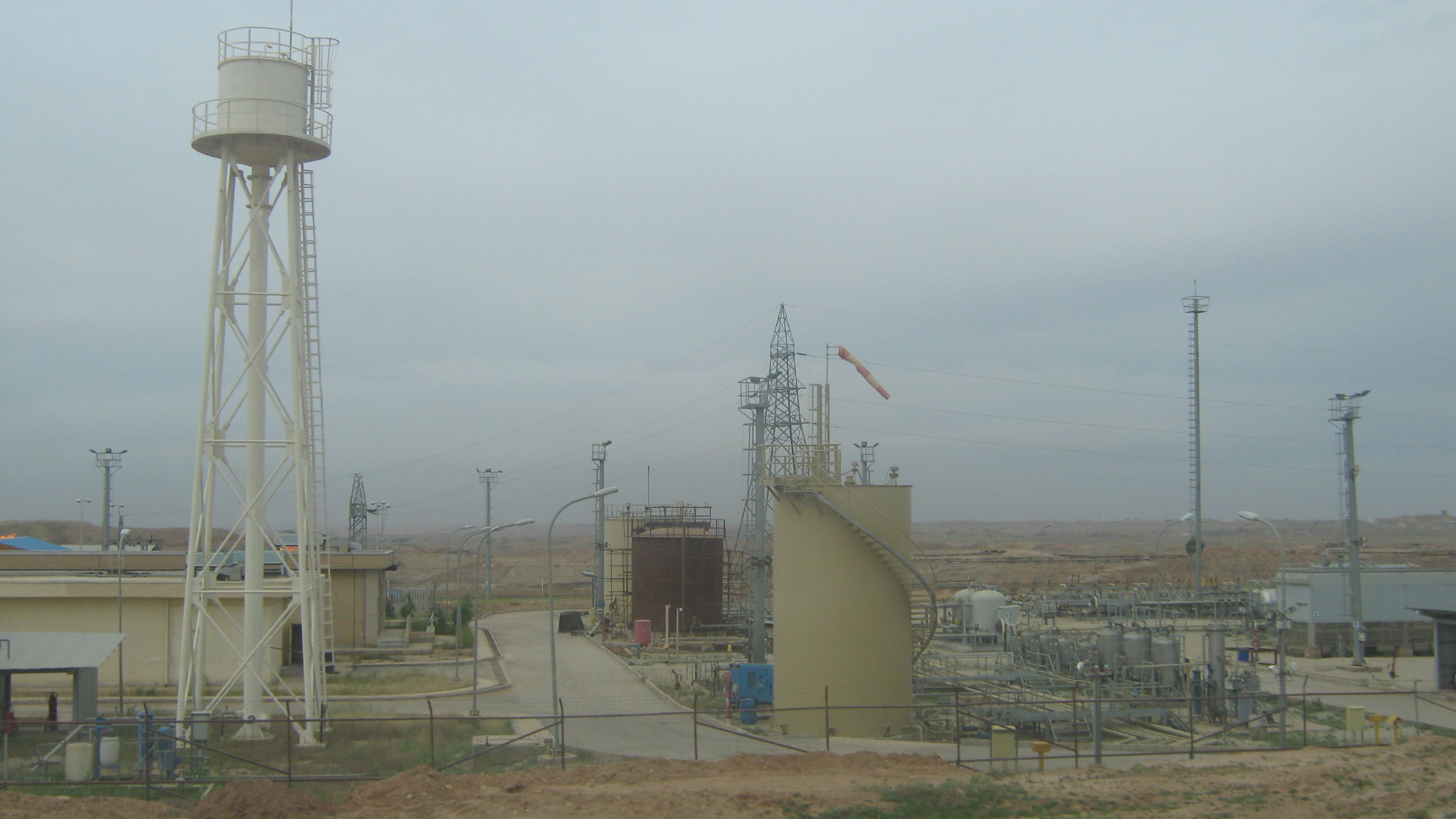 Naft Shahr, Iran